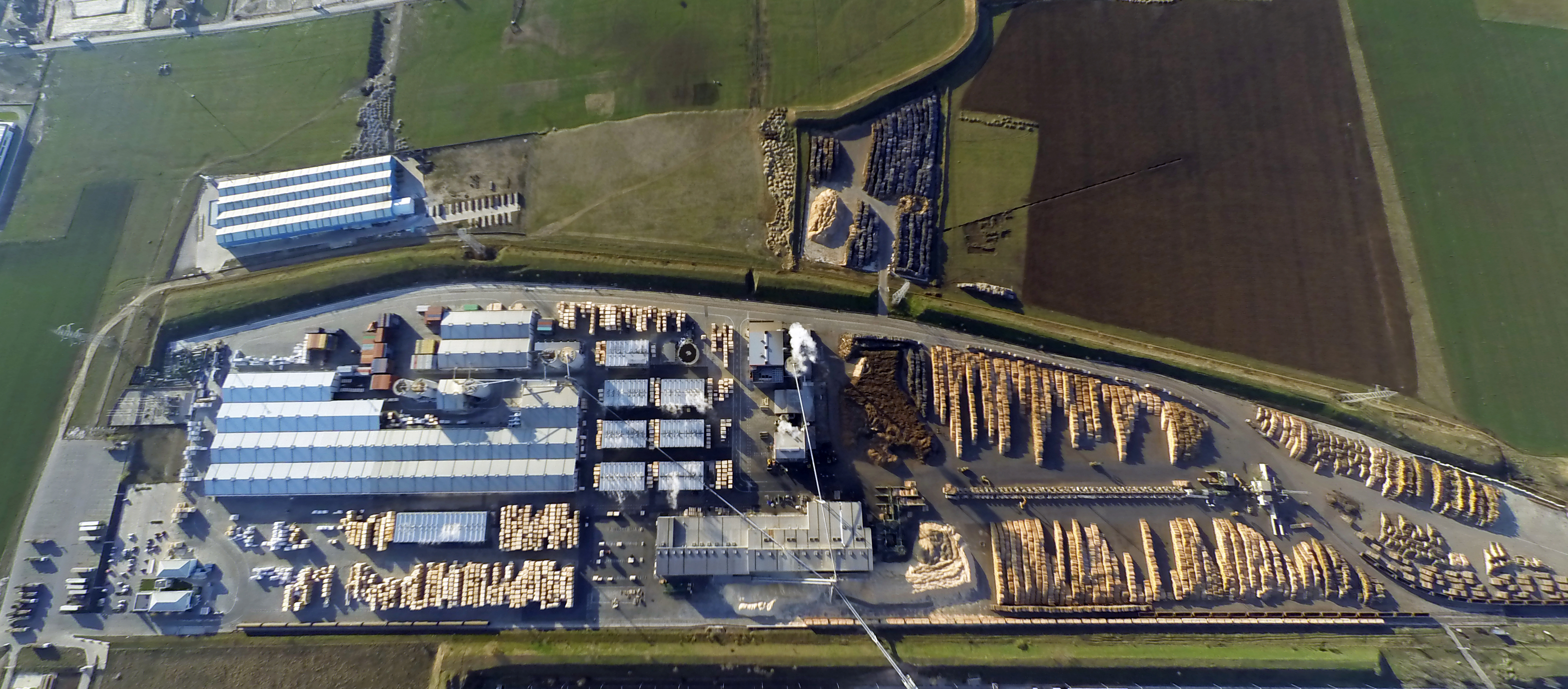 Aerial photo of the Schweighofer sawmill in Sebeș, Romania.